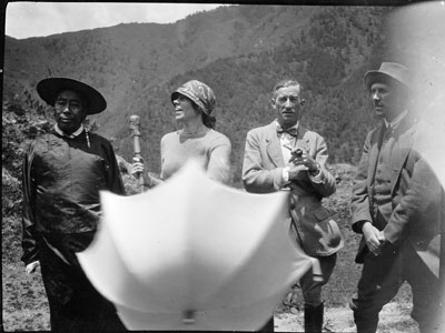 Left to right: Depon Miru Gyalwa, Mrs Bailey, Major Vance and Colonel Bailey. Colonel Bailey was in 1927 Political Officer of Sikkim, Bhutan and Tibet and was Arthur Hopkinson's immediate superior. The Bailey's visited Yatung in August 1927 and this photograph was taken on August 16th when the Depon (now Dzaza) Miru Gyalwa invited them to lunch at his house in Pipitang